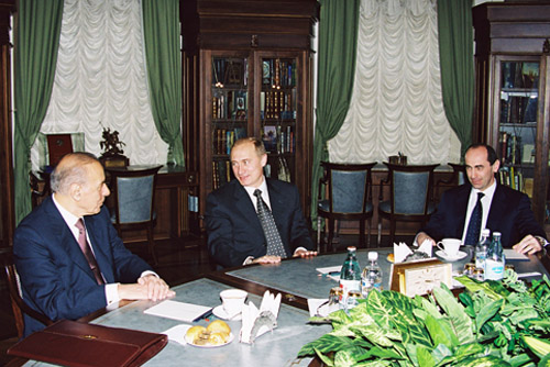 THE KREMLIN, MOSCOW. President Putin meeting President Heidar Aliyev of Azerbaijan (left) and President Robert Kocharian of Armenia.